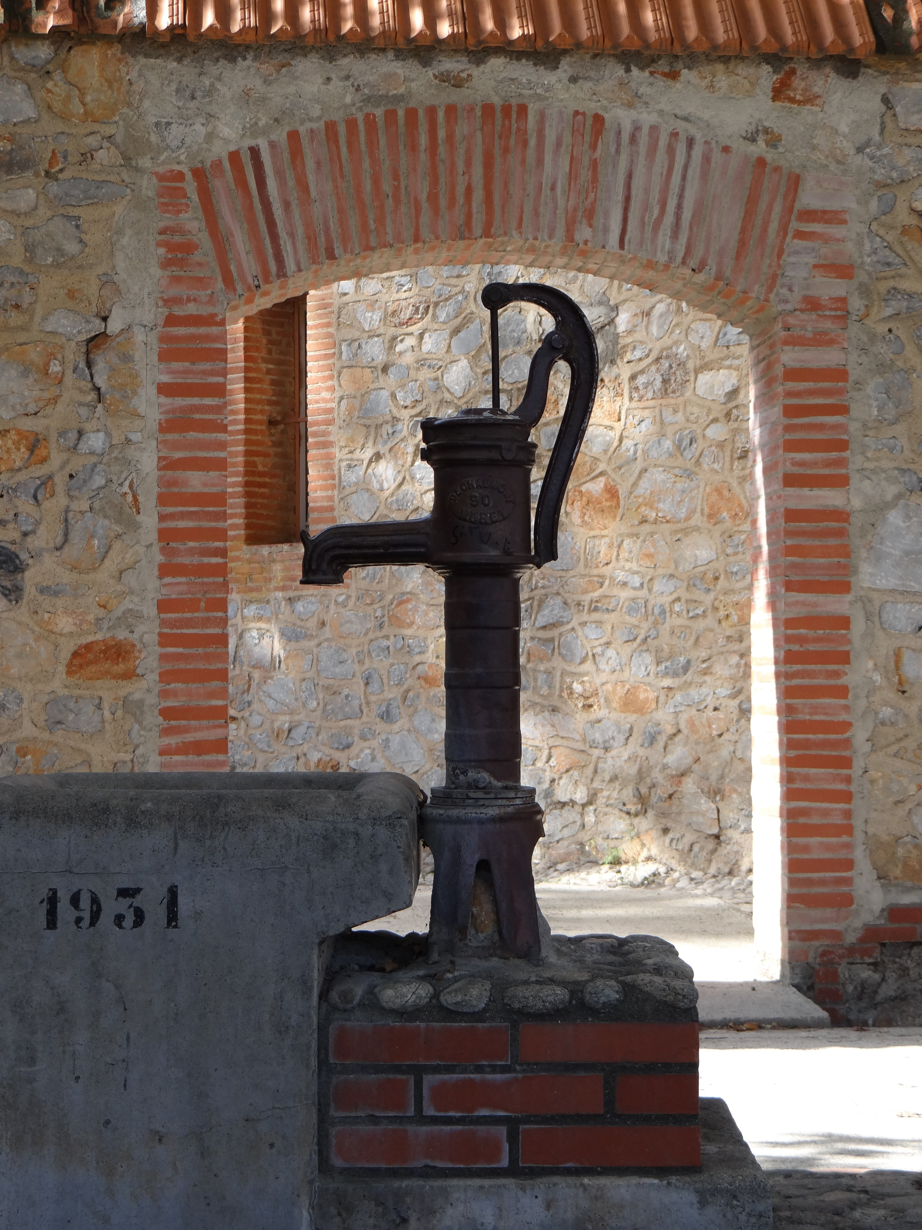 Pump Good Avenue Jean Jaures, Alenya, Pyrenees-Orientales, France.